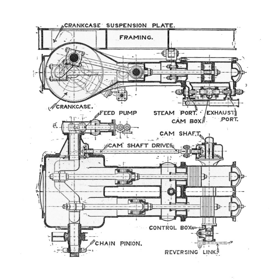 Sentinel steam waggon engine, section (Rankin Kennedy, Modern Engines, Vol V).jpg